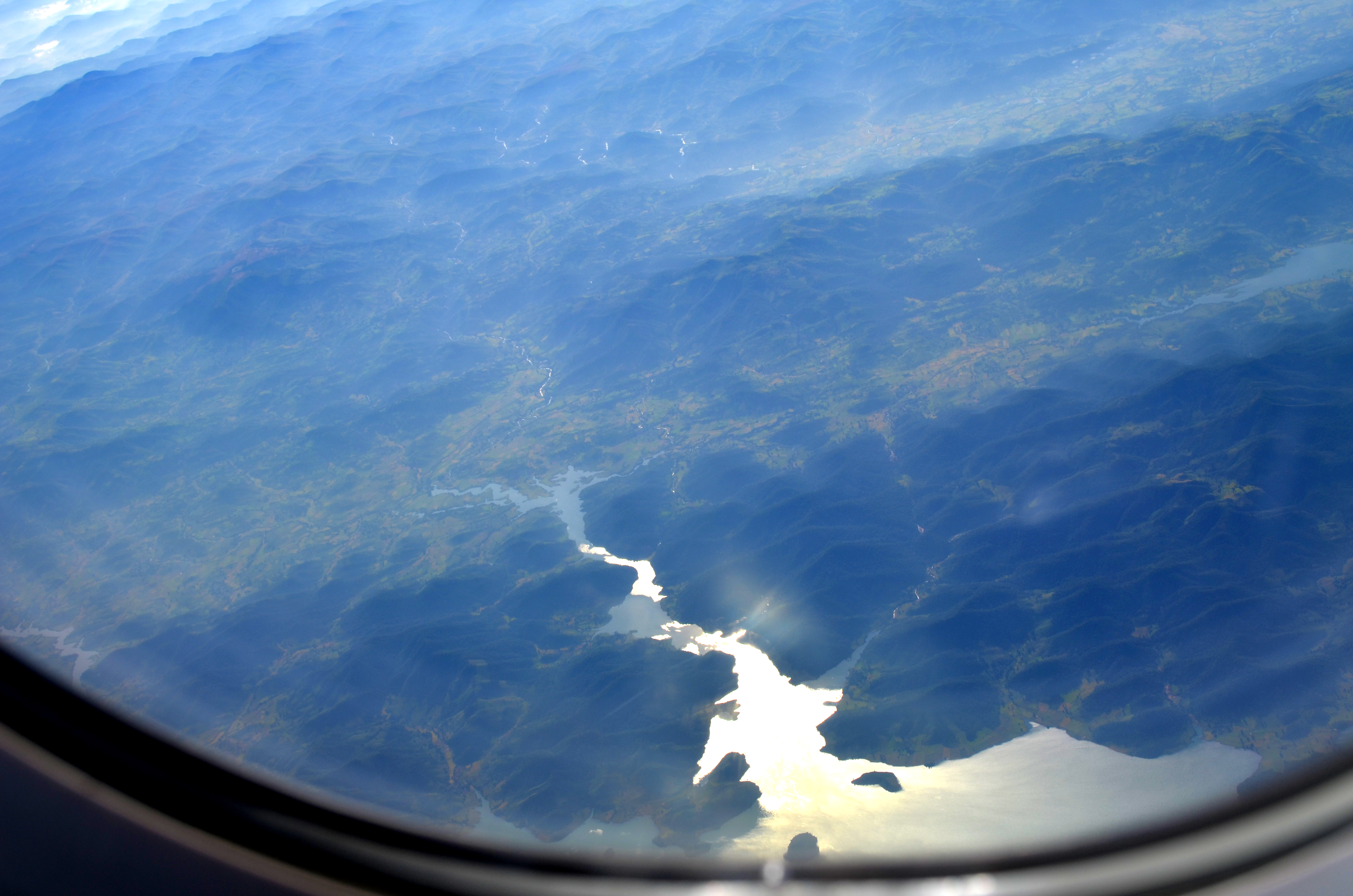 Aerial view of Bhargavi river taken from an aircraft. Bhargavi river flows across Odisha, India. It forms the Mahanadi - Kuakhai distributary system branching off from Kuakhai and drains into the Chilka Lake.